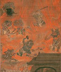 The six paths (絹本著色六道絵, kenpon choshoku rokudōe). Part of one of 15 scrolls showing the Avici hell (阿鼻地獄), the eigth and most painful of the eight Buddhist hells. Color on silk. Located at Shōju Raigō-ji (聖衆来迎寺), Ōtsu, Shiga, Japan. The scrolls have been designated as National Treasure of Japan in the category paintings.